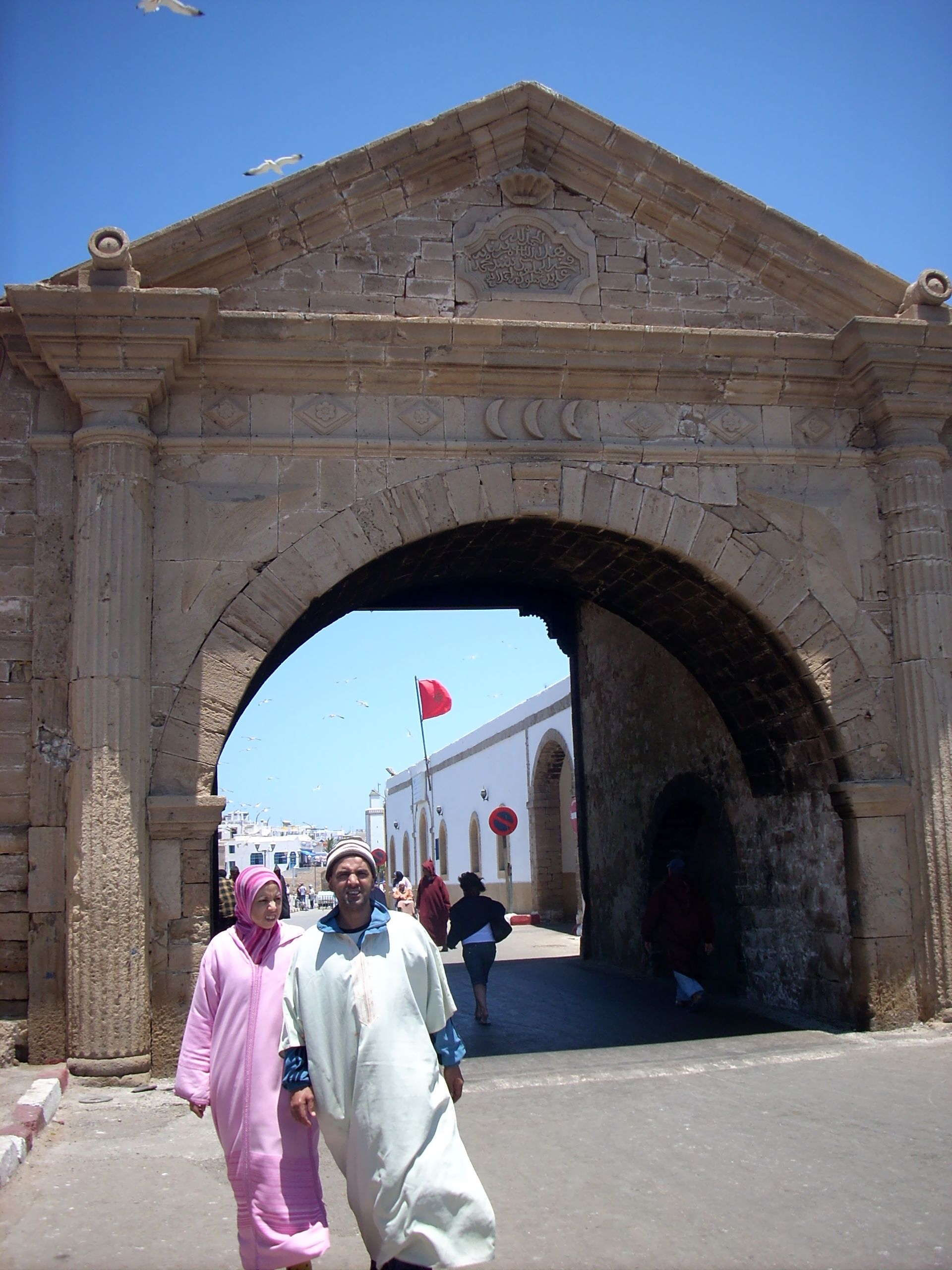 The Gate of Three Religions in Essaouira, Morocco